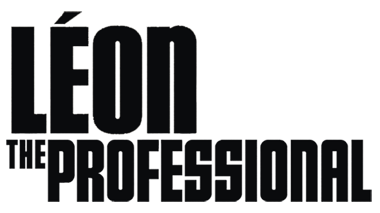 Logo for Léon: The Professional